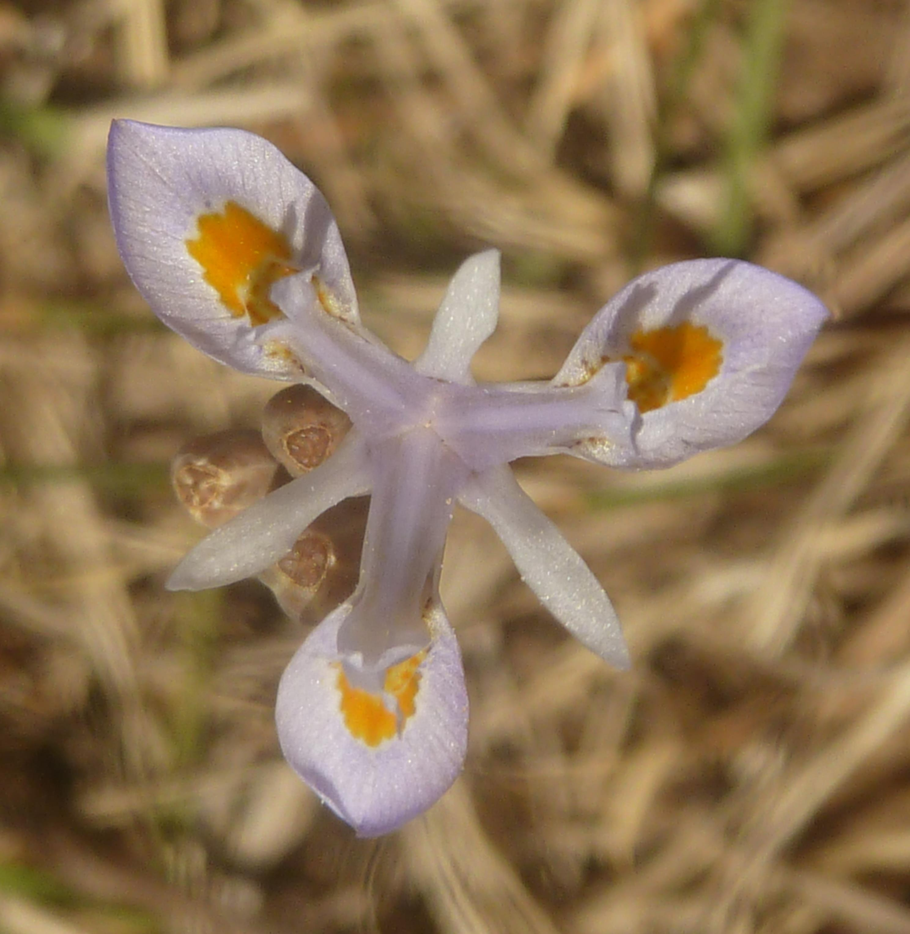 Flower of a Bloutulp near the Rietvlei River in Rietvlei Nature Reserve, Gauteng